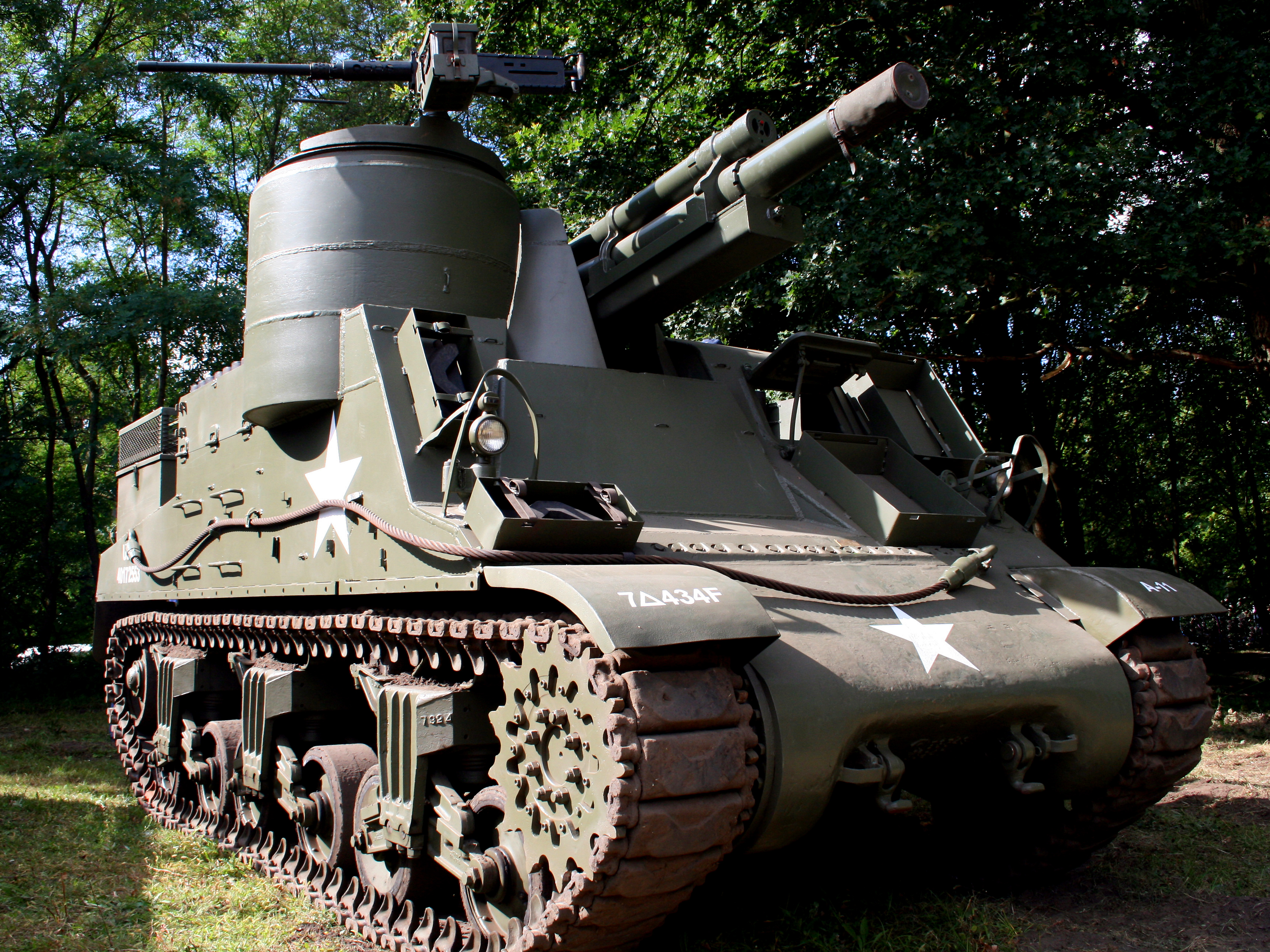 Self-propelled artillery vehicle M7 Priest - 105 mm Howitzer Motor Carriage M7.